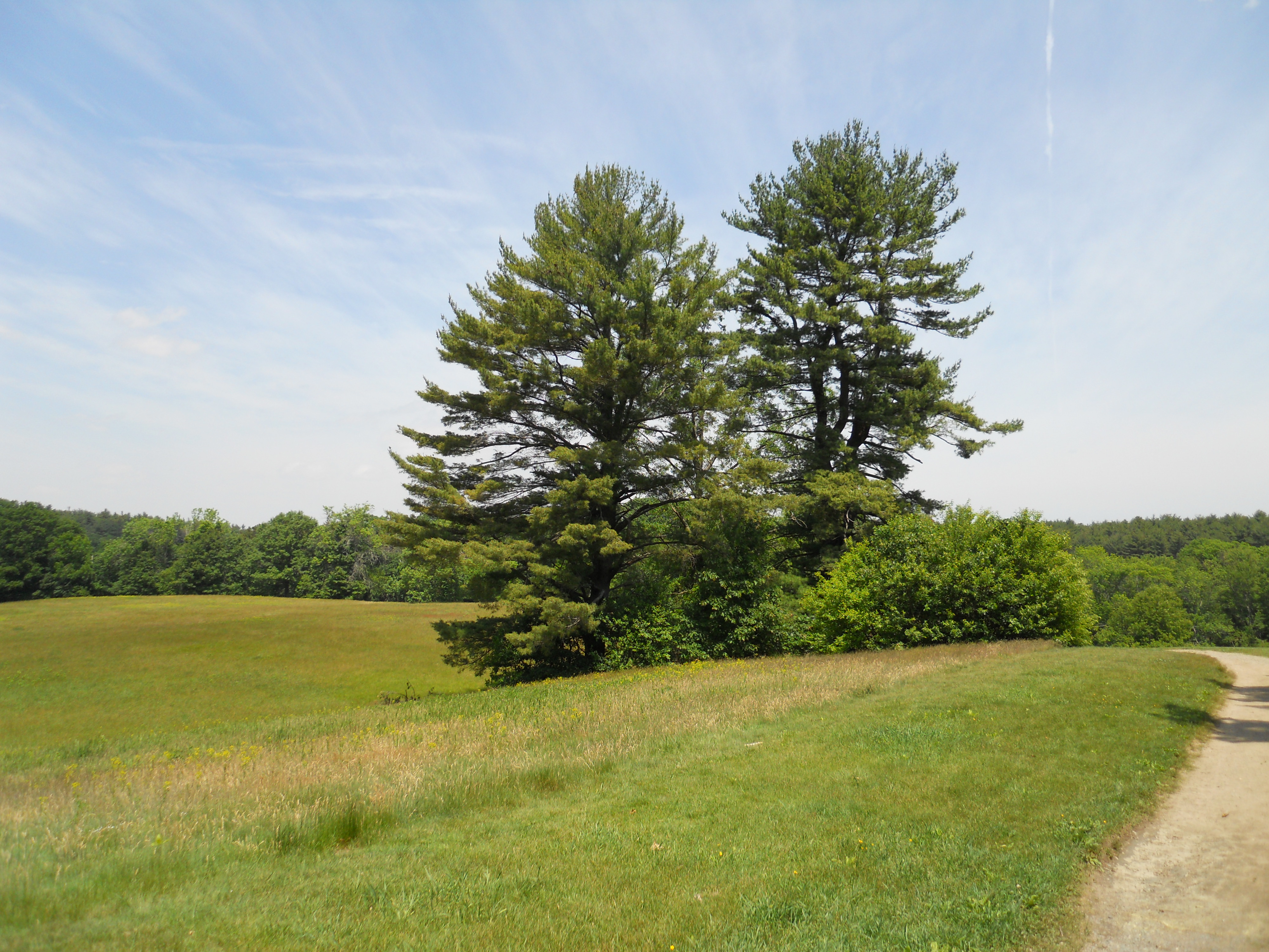 Pinus strobus, Maudslay State Park, Newburyport, Massachusetts. Estimated height, about 100 feet. Estimated age, over 100 years.